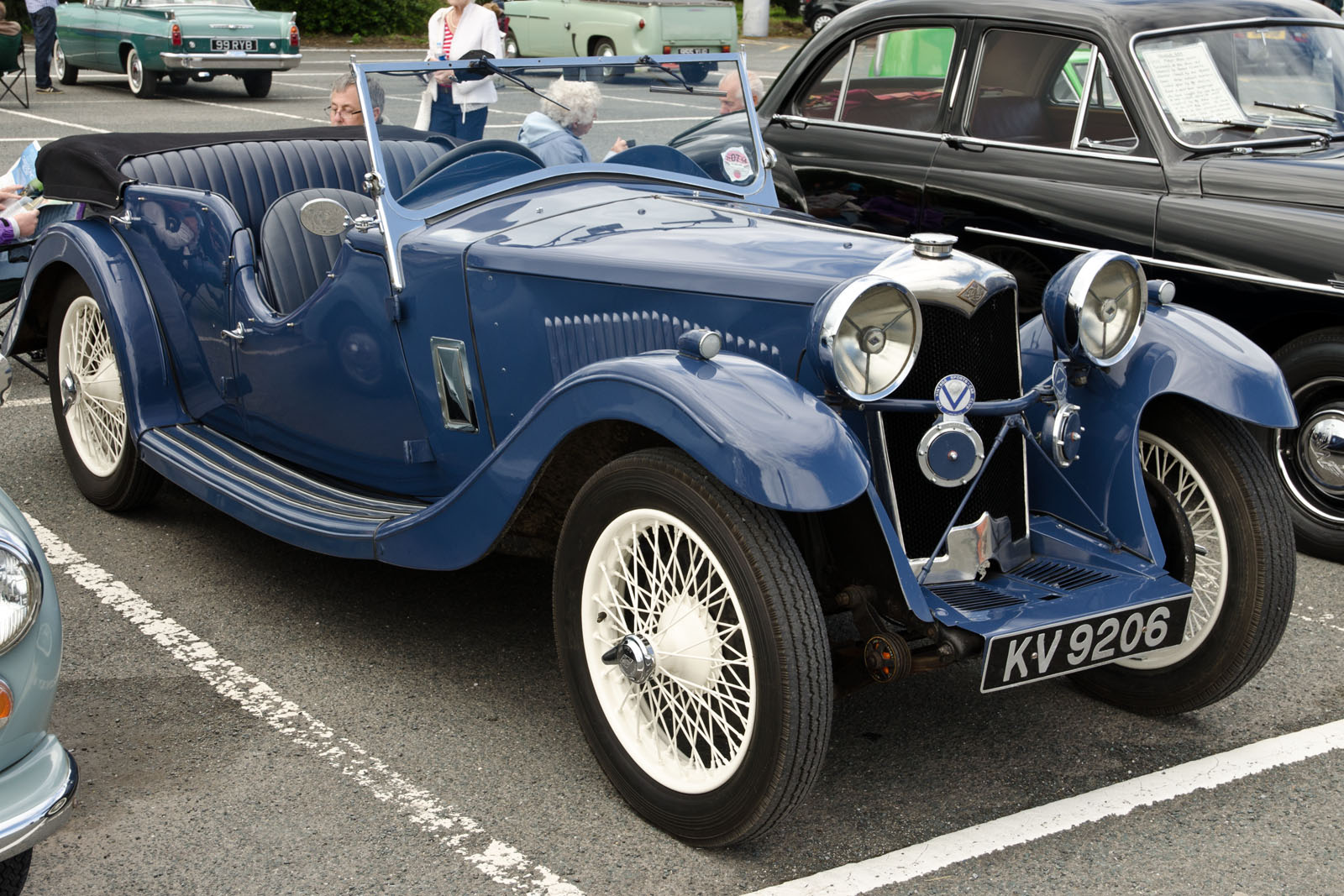 Riley Nine Lynx 4 seat Tourer (1934) (DVLA) first registered 11 May 1934, 1056cc North Cheshire Classic Car Club at Ellsmere Port 11/08/2013